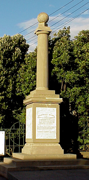 See NZ History entry for more info.